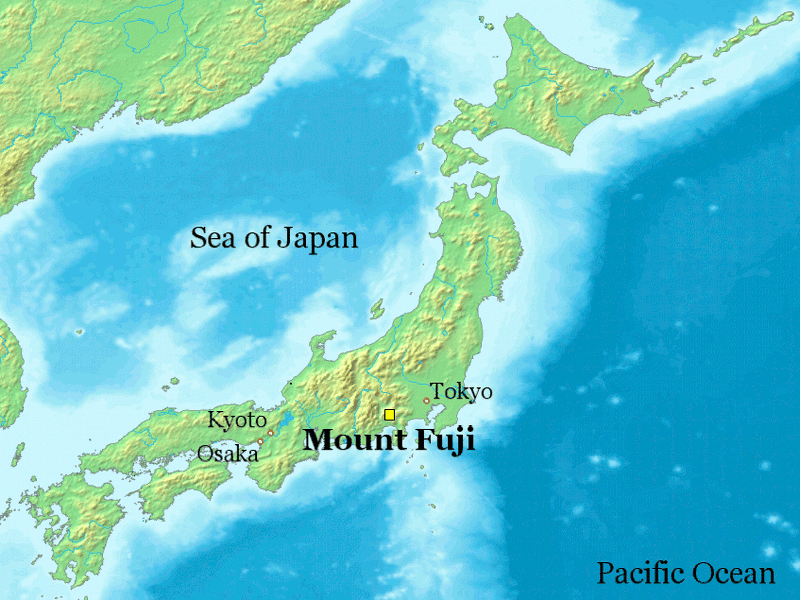 Location map of Mount Fuji